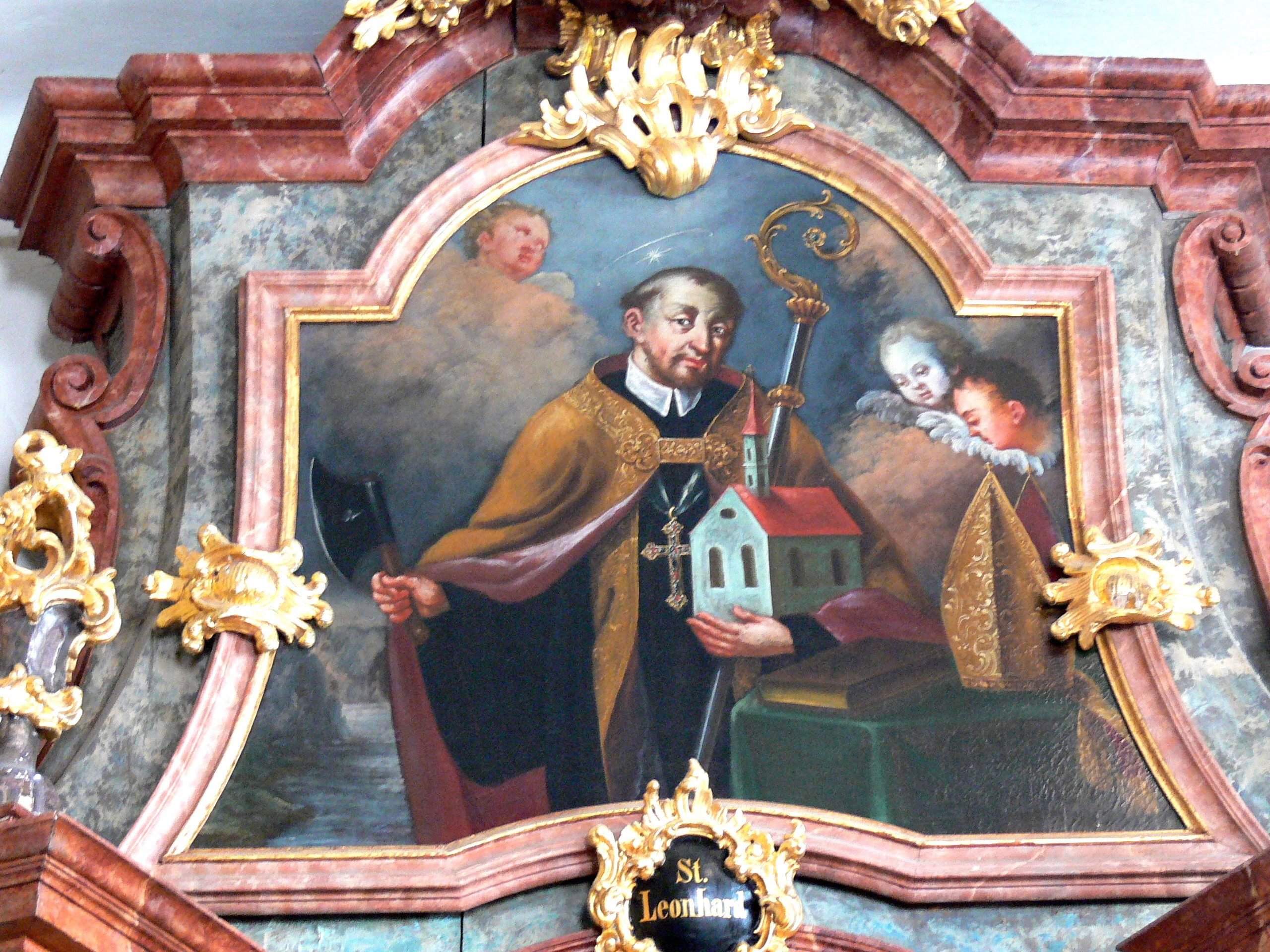 Mary Assumption church in Kájov, Czech Republic. Dormition chapel: Altar of Saint Leonhard ( 1664 ): Painting of Saint Wolfgang.